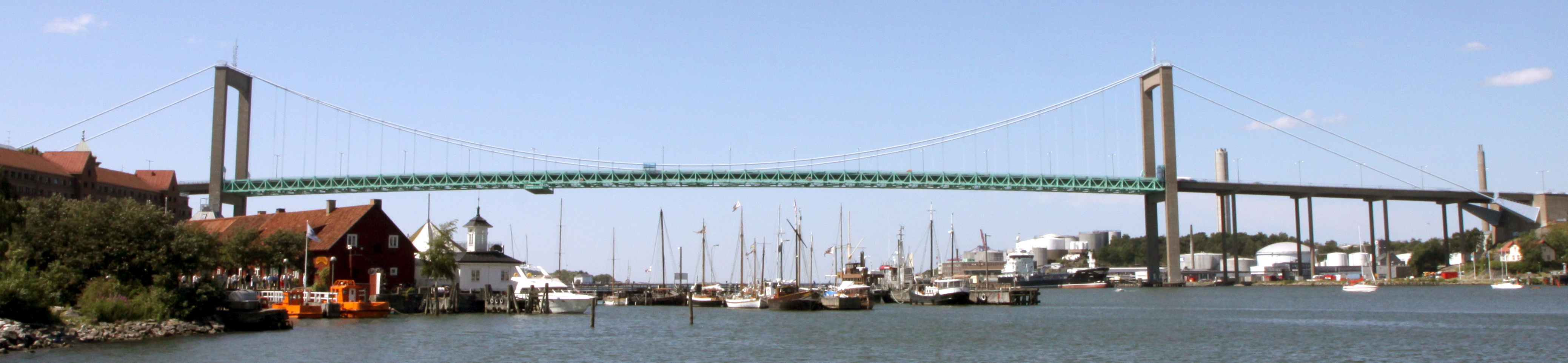 Älvsborgsbron in Göteborg, Sweden